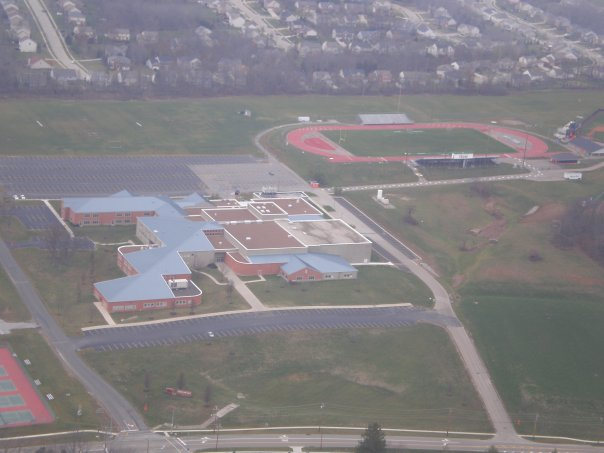 An aerial photograph of Loveland High School taken in a J-4 in 2008 -photo by: J. Goebel